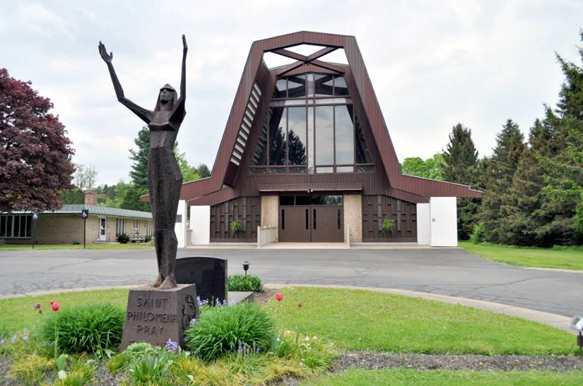 St. Philomena’s Roman Catholic Church 26 Plymouth Avenue Franklinville, NY 14737